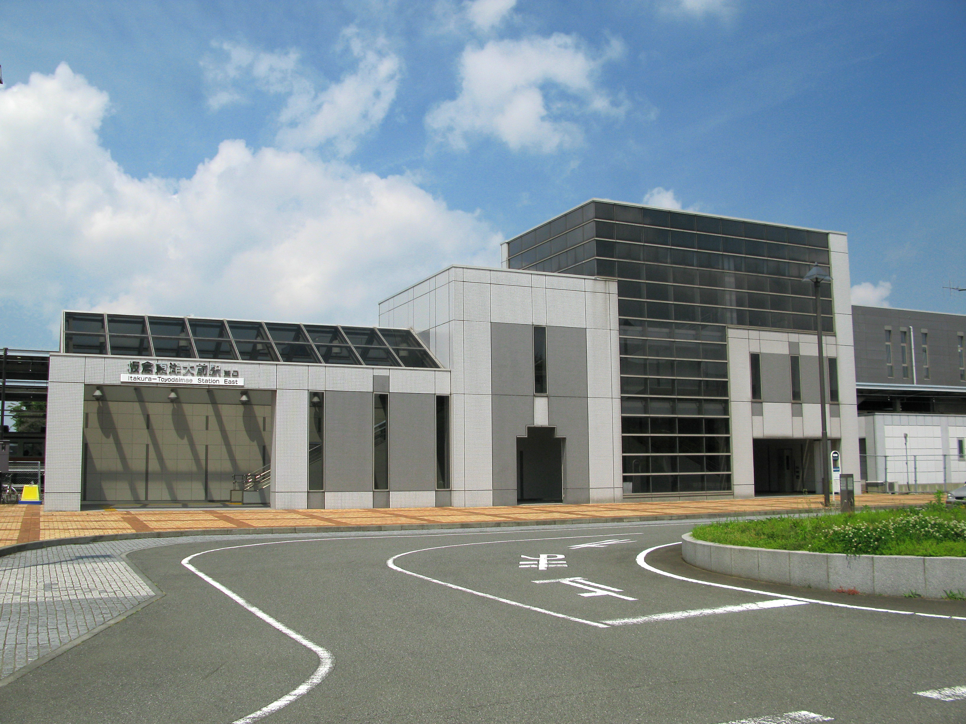 Itakura Tōyōdai-mae Station on the Tōbu Nikkō Line in Itakura, Gunma Prefecture, Japan